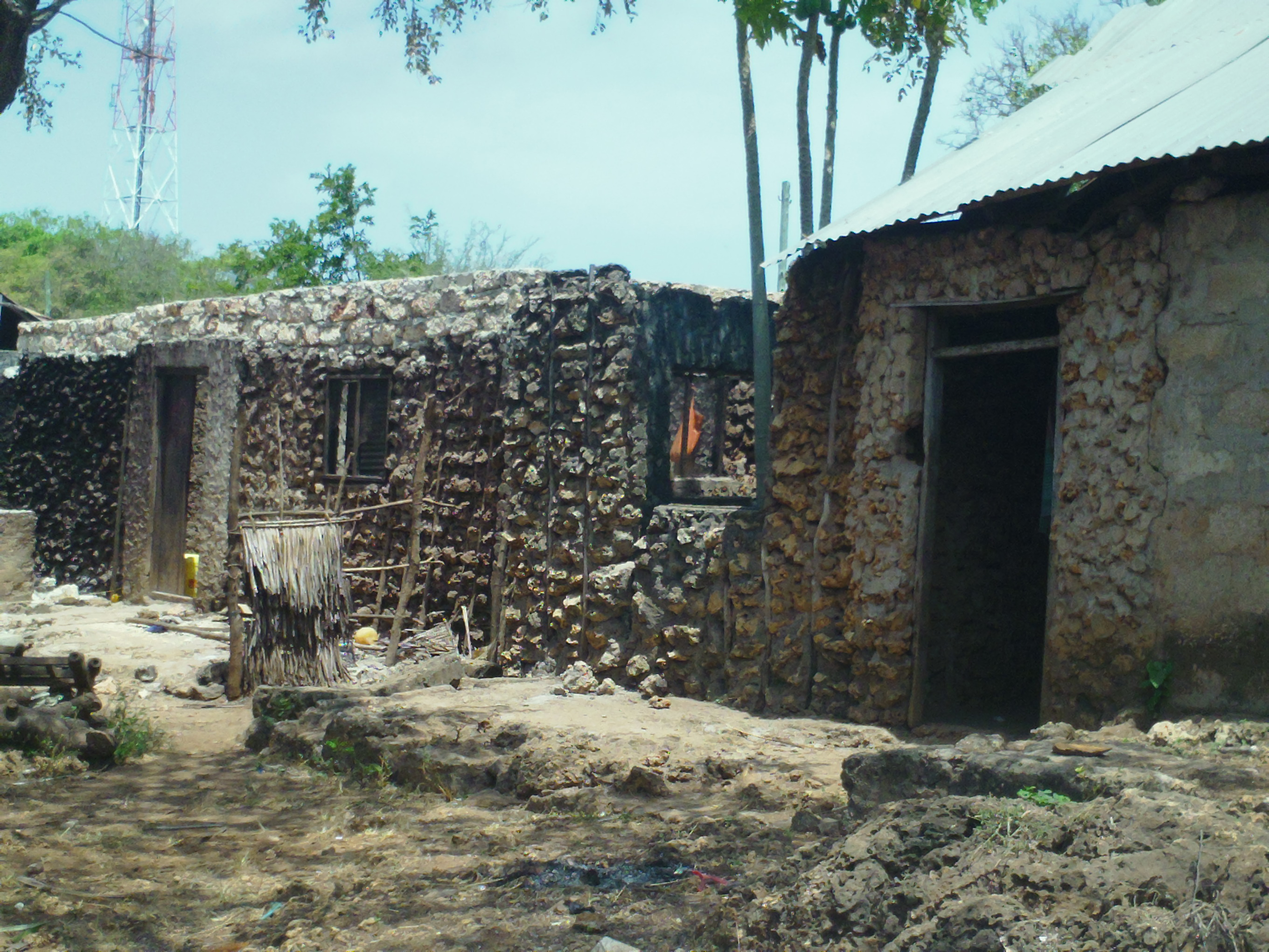 Houses made from Shimoni's coral rag.